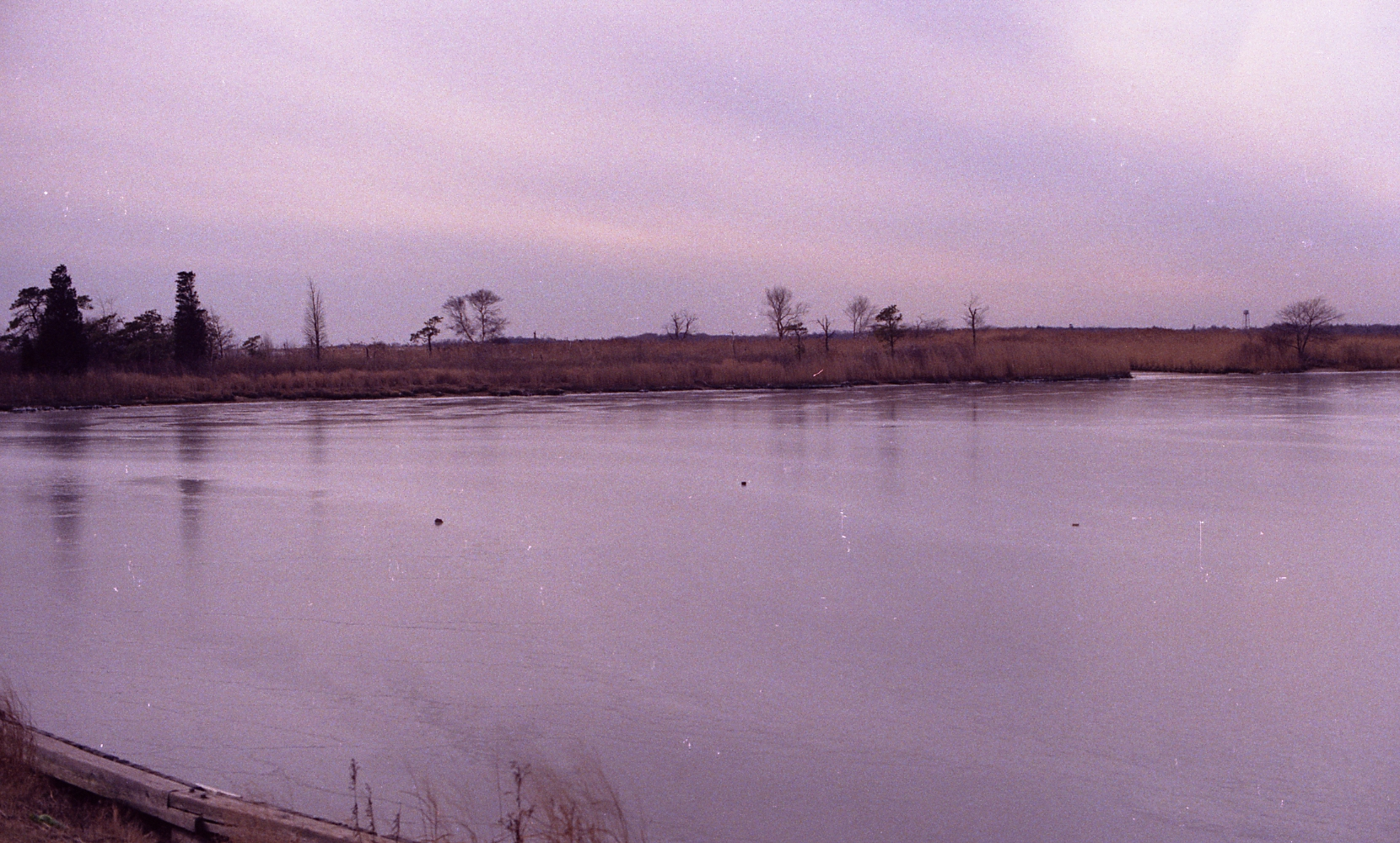 Pete's Island @ LaSalle Military Academy Oakdale, New York.